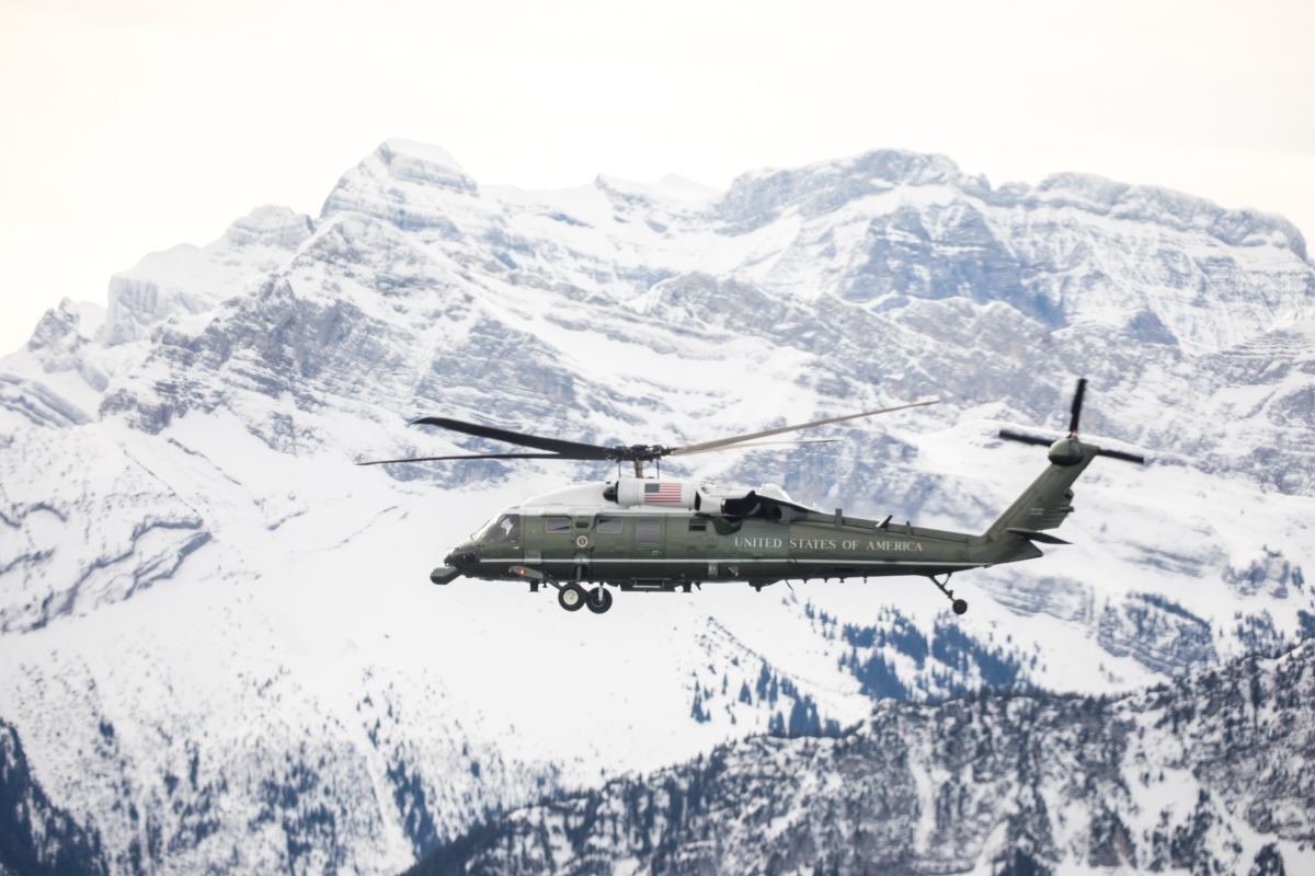 President Donald J. Trump arrives at Zurich Airport Thursday, January 25, 2018, in Zurich, Switzerland, and proceeds to Marine One traveling to Davos, Switzerland over the Swiss Alps. (Official White House Photo by Shealah Craighead)